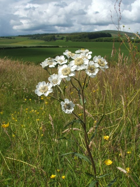 Sneezewort (Achillea ptarmica). This is a common flower, found in damp grassy places. Its flowers are quite similar to those of Yarrow (A. millefolium), but the finely dissected leaves of the latter are very different: 550905. Carman Hill is visible, right of centre, in the background. [Regarding the common name of this plant, the OED comments that its dried leaves were "powdered and used as a sternutatory" (i.e., to induce sneezing, for its supposed medical benefits). The specific name "ptarmica" is from Gk. "πταρμικός" (ptarmikós: "causing to sneeze").]